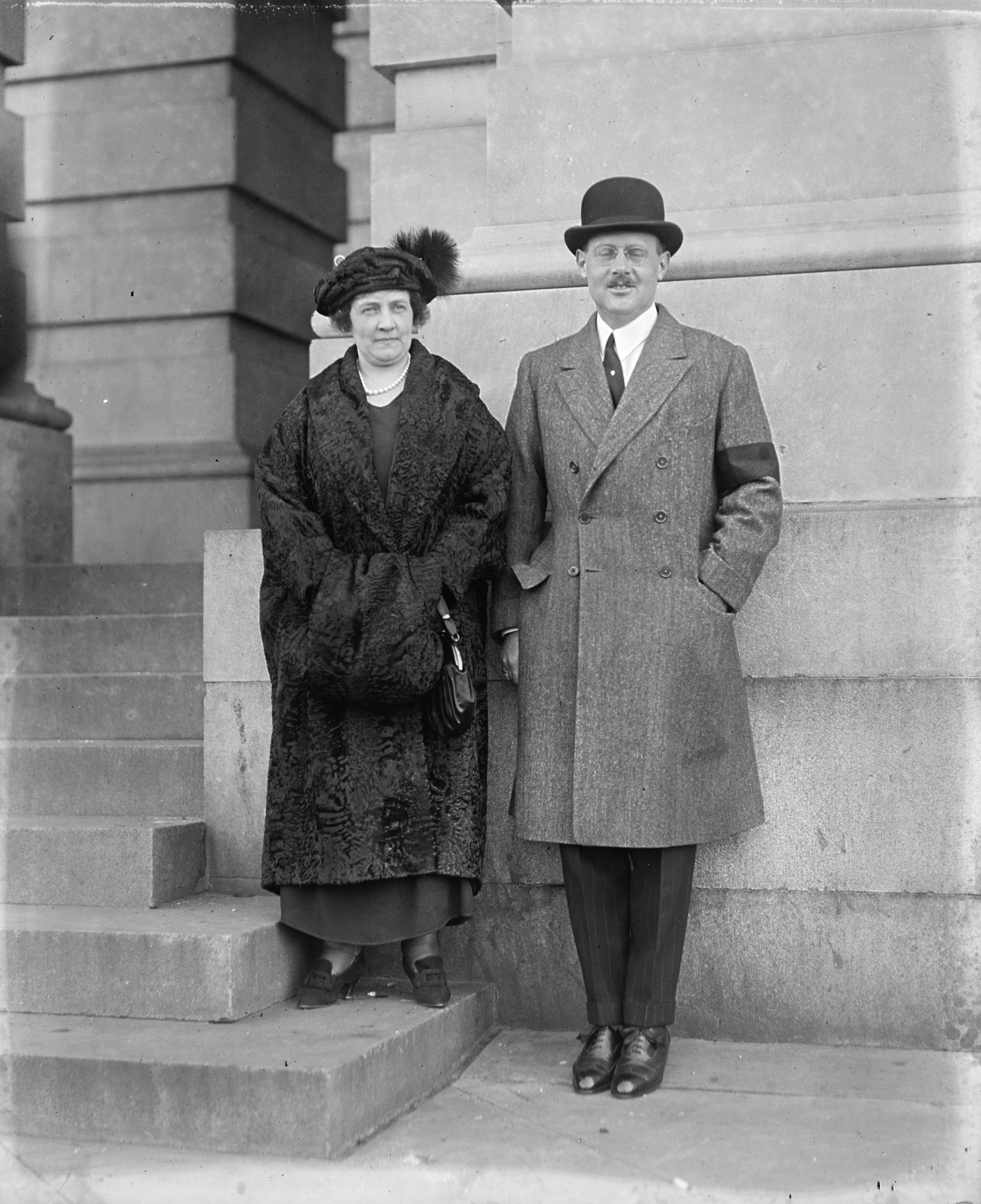 Prince Christopher of Greece and Denmark and his wife None May Stewart (styled Princess Anastasia of Greece)